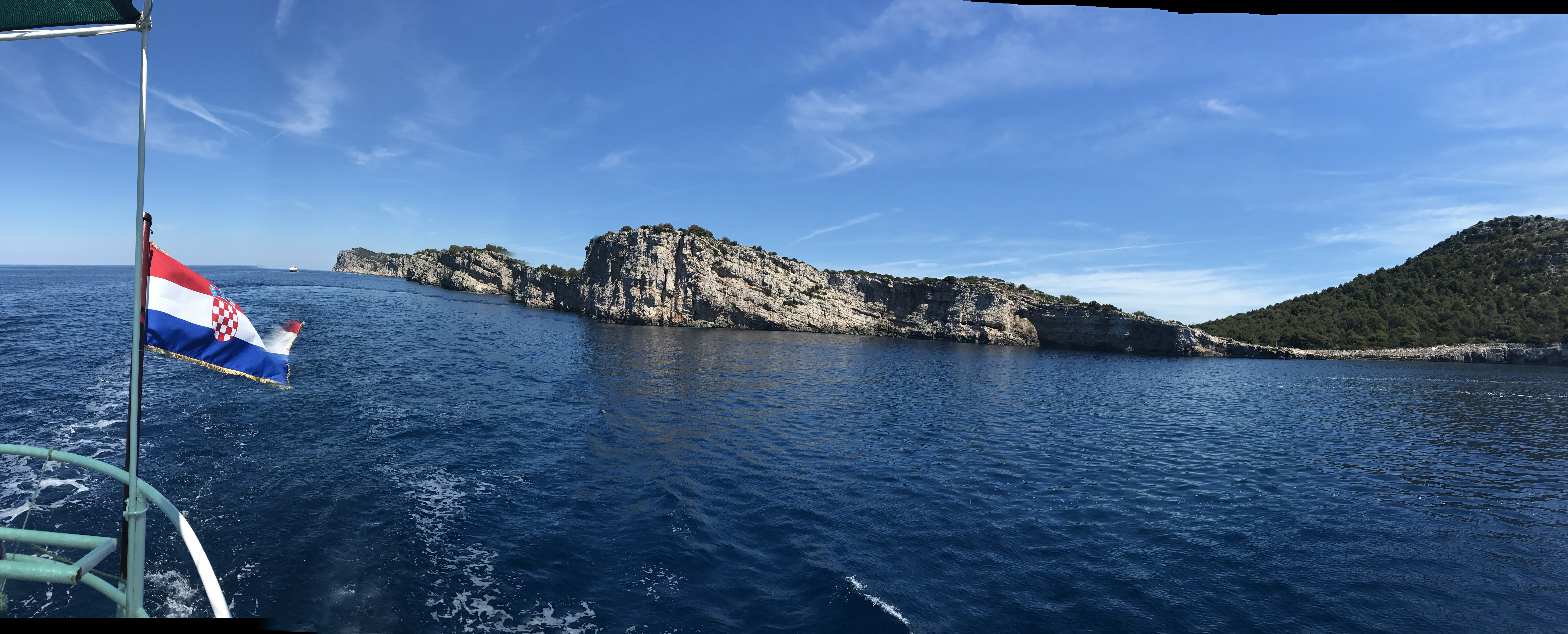 Cliffs at Kornati Natuonal Park This is a a photo of a natural area in Croatia with ID: NP02